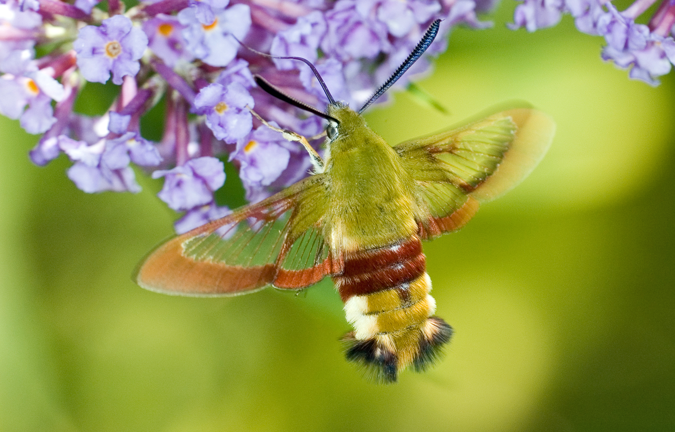 Sphinx en vol Hemaris fuciformis (SPHINX GAZE)